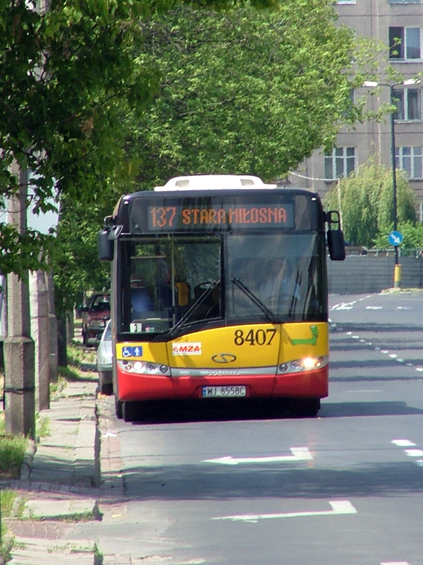 Solaris Urbino 18 Mk3 bus (#8407, built 2005) in Warsaw, Poland, Praga Południe, Grochów, Dwernickiego Street. MZA Warszawa operator.